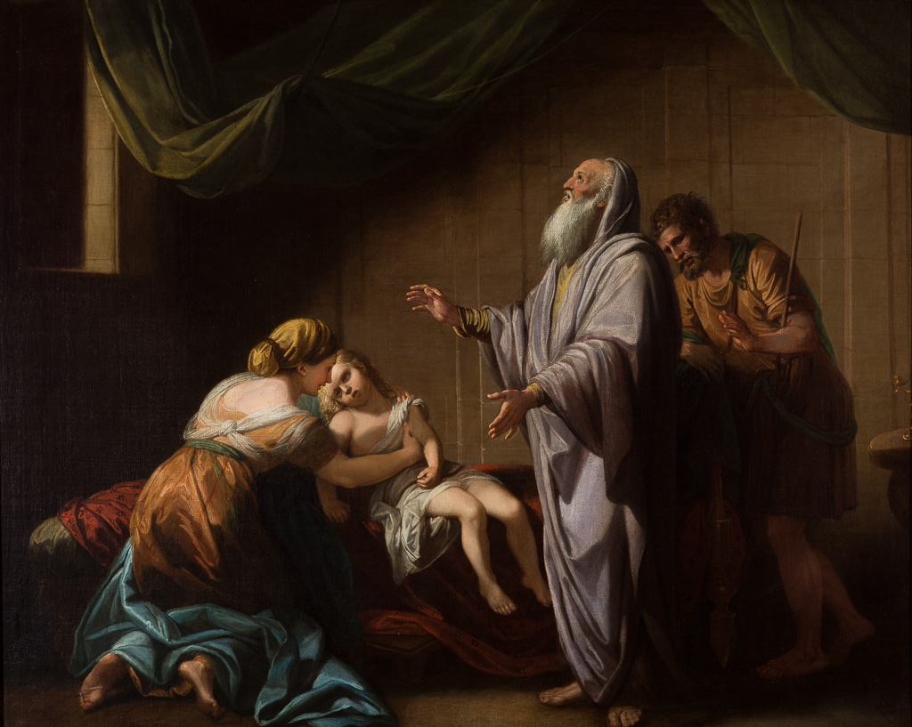 Elisha Raising the Shunammite’s Son by Benjamin West, 1766, oil on canvas, 40 3/16 × 50¼ in. (102.1 × 127.6 cm.), Speed Art Museum